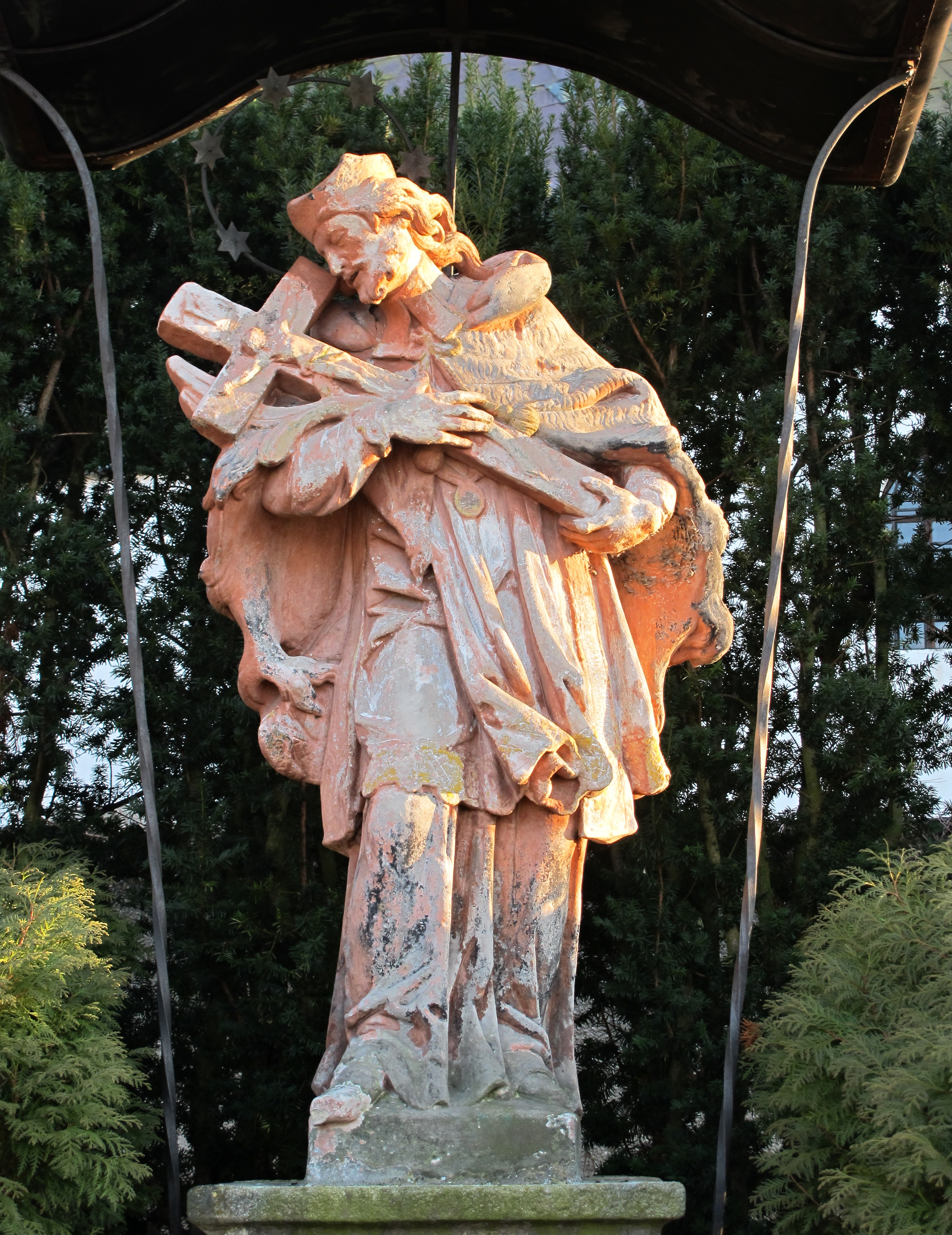 Statue of St. John of Nepomuk in Dlouhá Lhota in Příbram District, Czech Republic